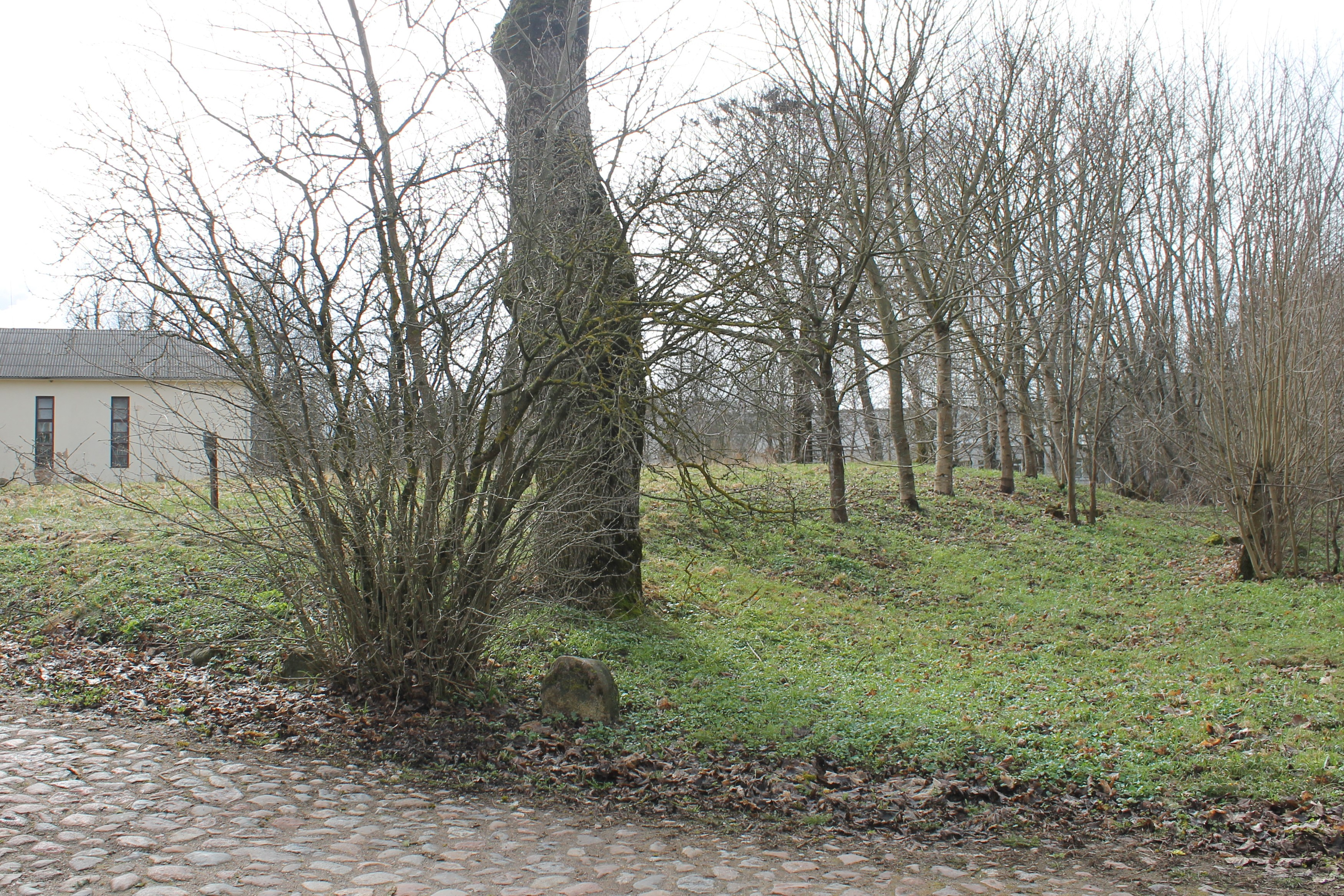 Mosėdis Hillfort, Skuodas district, LithuaniaLietuvių: Mosėdžio piliakalnis, Skuodo rajonas, Lietuva